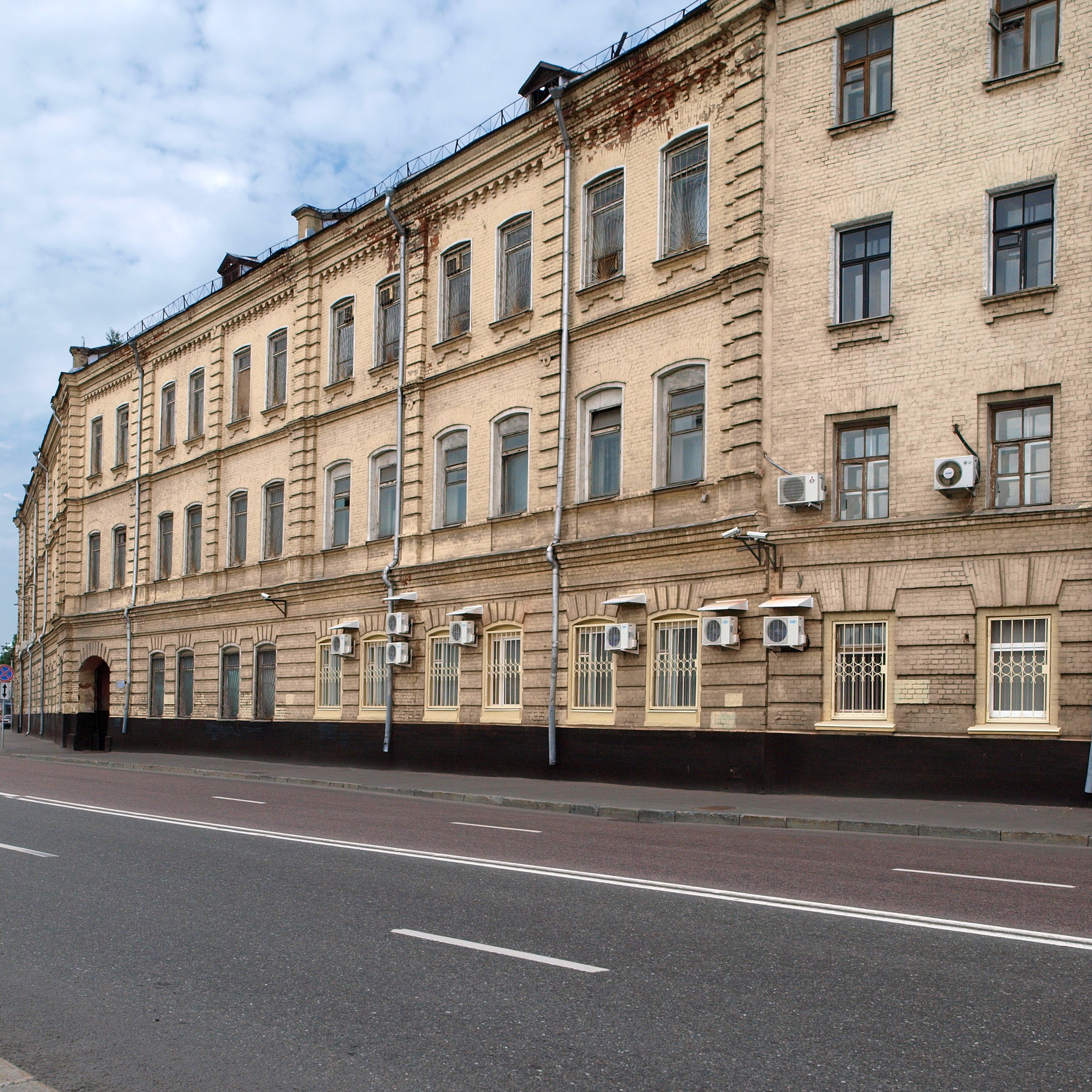 Prechistenskaya Embankment, Moscow.